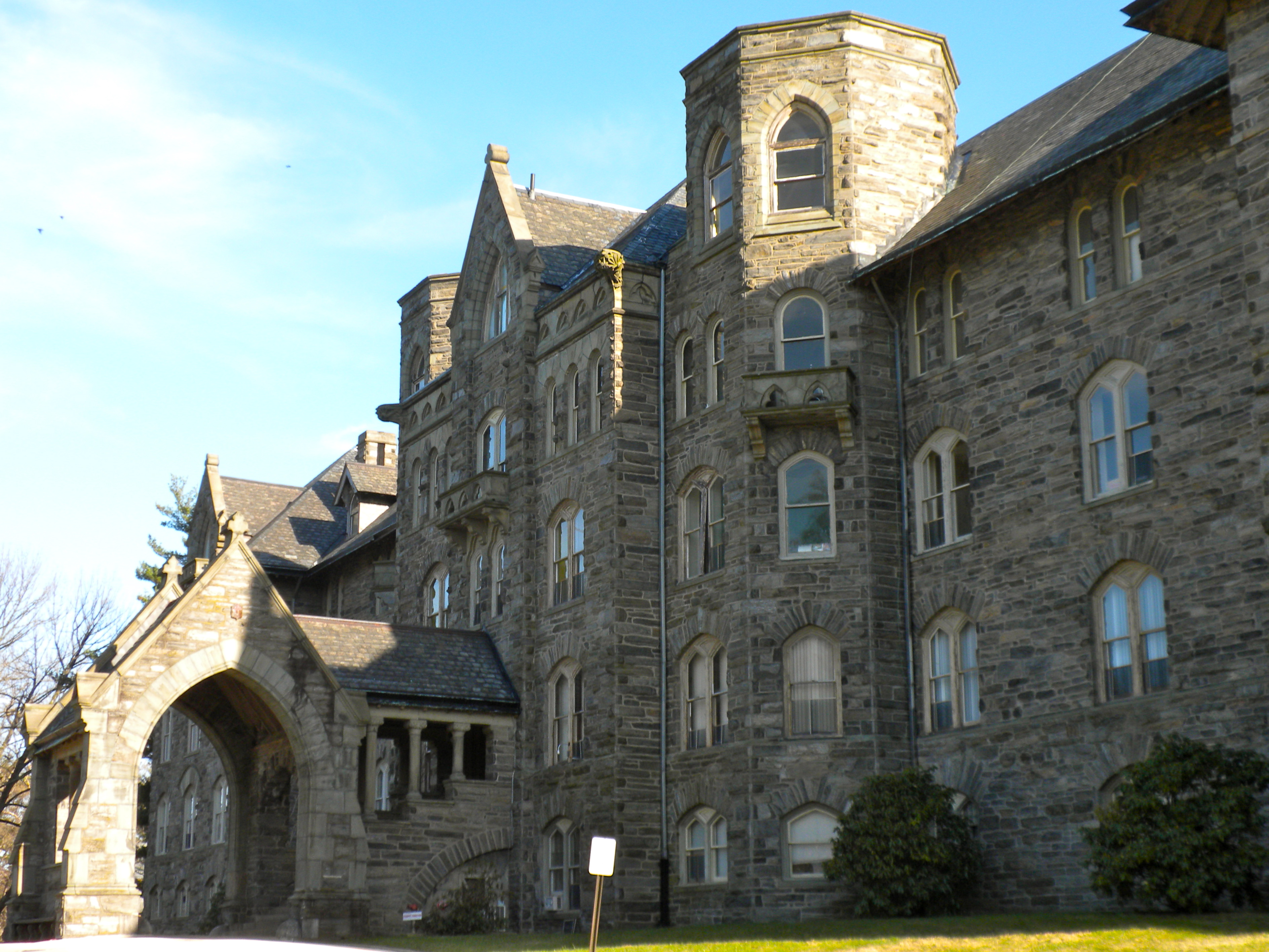 On NRHP as "Pennsylvania Institute for the Deaf and Dumb" since May 9, 1985. At 7500 Germantown Ave. A building on what is now known as the "New Covenant Campus." The Institute for the Deaf moved to this site from its original building at Broad and Pine (now part of the University of the Arts) in 1883 and sold it to Spring Garden College when it moved to the former Germantown Academy campus on Schoolhouse Lane in 1984. After Spring Garden College closed in the early 1990s, it was sold to New Covenant Church which occupies several of the historic buildings and a new sanctuary. Other buildings on the campus house several schools and a senior housing complex.